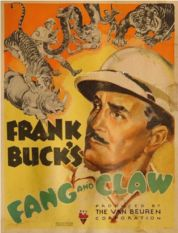 == rationale in Fang and Claw (1935 film)== This image is being used to illustrate the article on the movie in question and is used for informational or educational purposes only. This image is of low resolution. It is believed that this image will not devalue the ability of anyone to profit from the original work. No alternate image exists that can be used to illustrate the subject matter. Source: personal collection